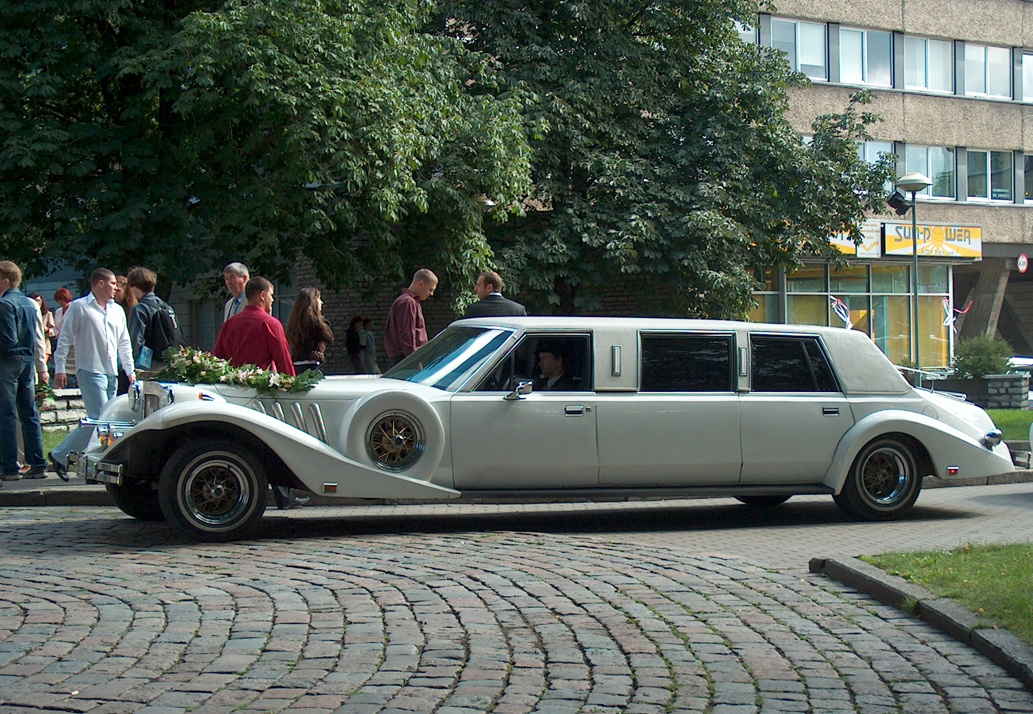 Wedding car waiting in front of the Matrimonial Office in Tallinn. Car is a Zimmer, built in the USA (neo-classical).